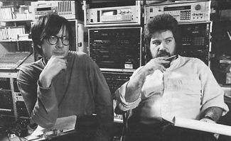 Brian Keane and Ric Burns at work on "The Way West" 1995